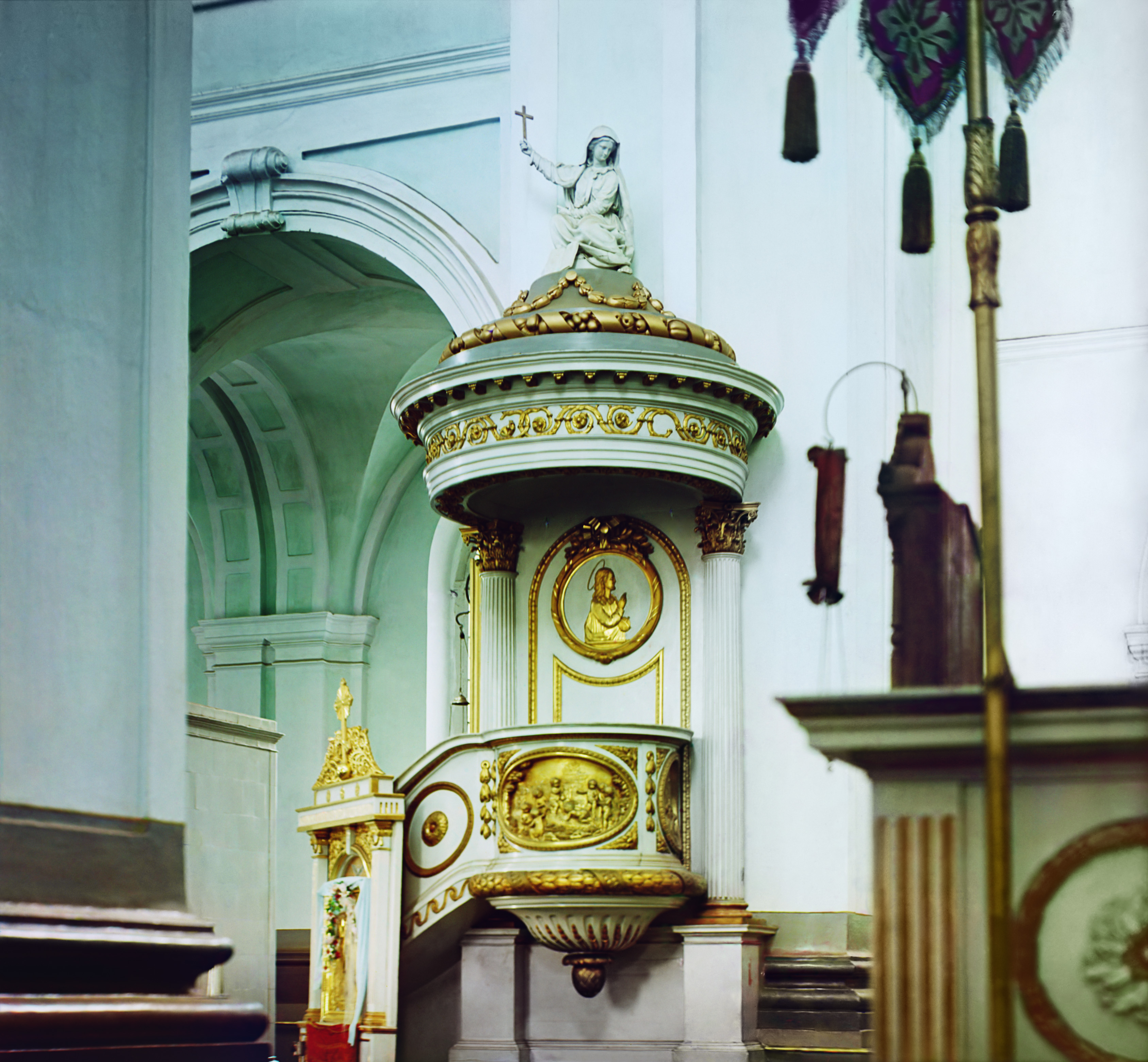 Catholic Church in Połacak (inside)